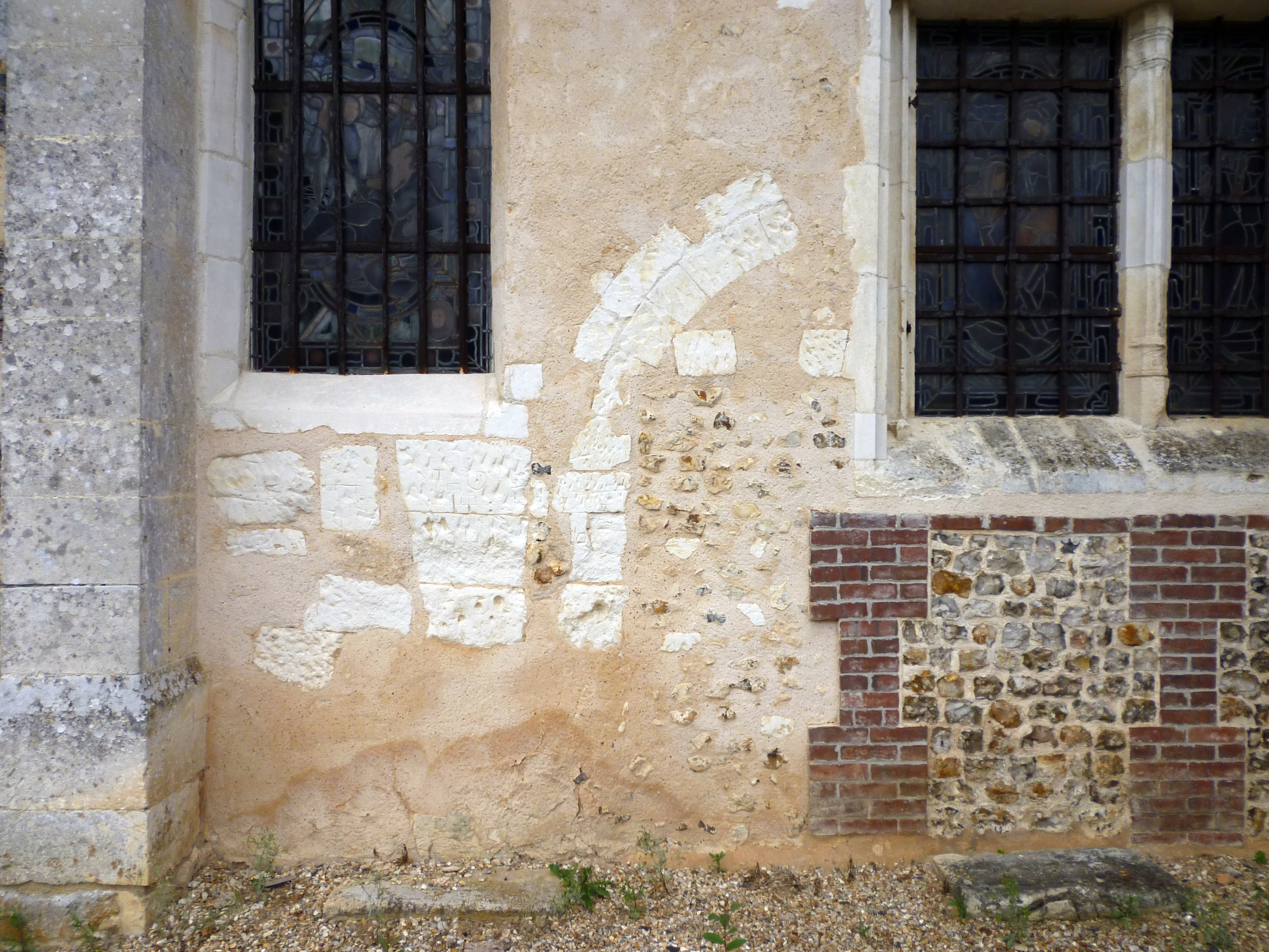 Church Sainte-Geneviève in Le Favril (Eure, France). Southern façade of the nave with the closed old "heaven's gate".